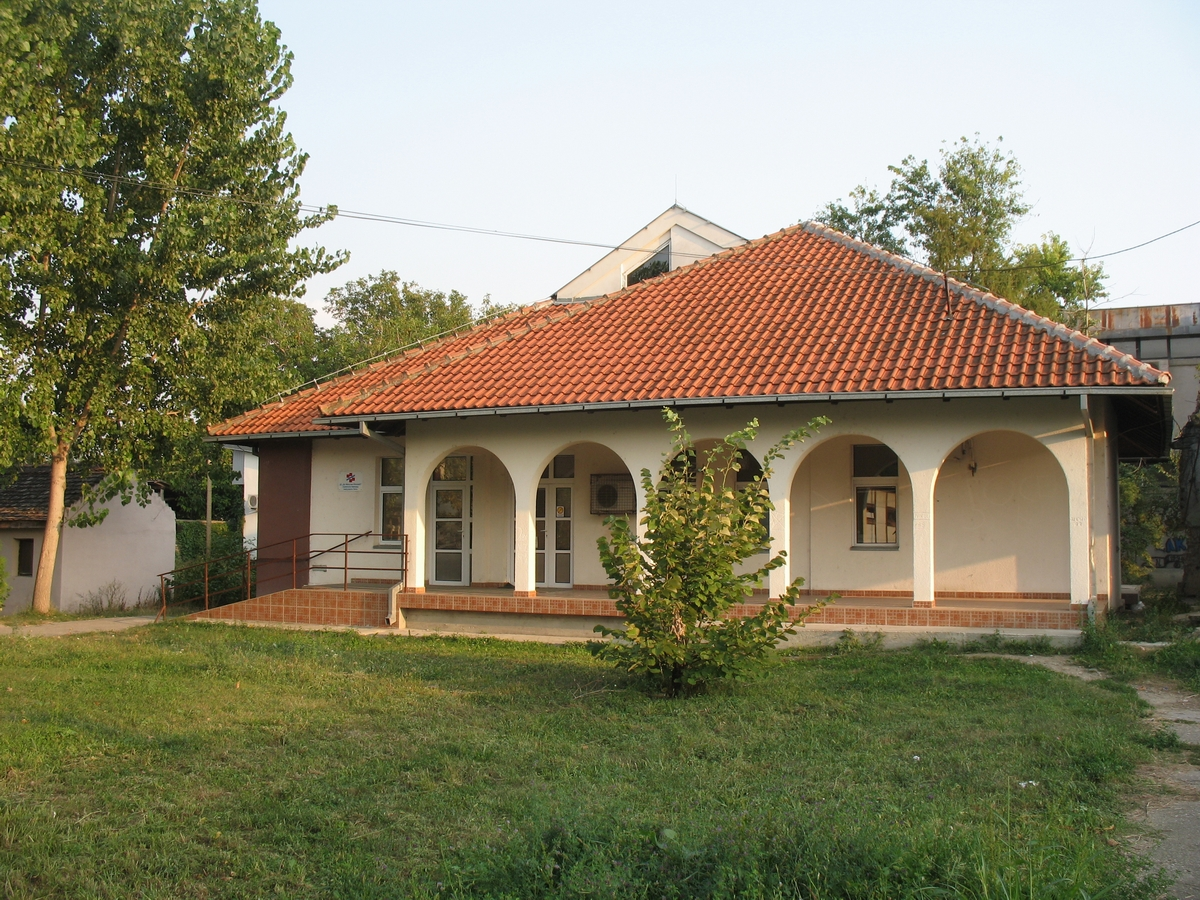 Health center in Ovča, near Belgrade, Serbia.